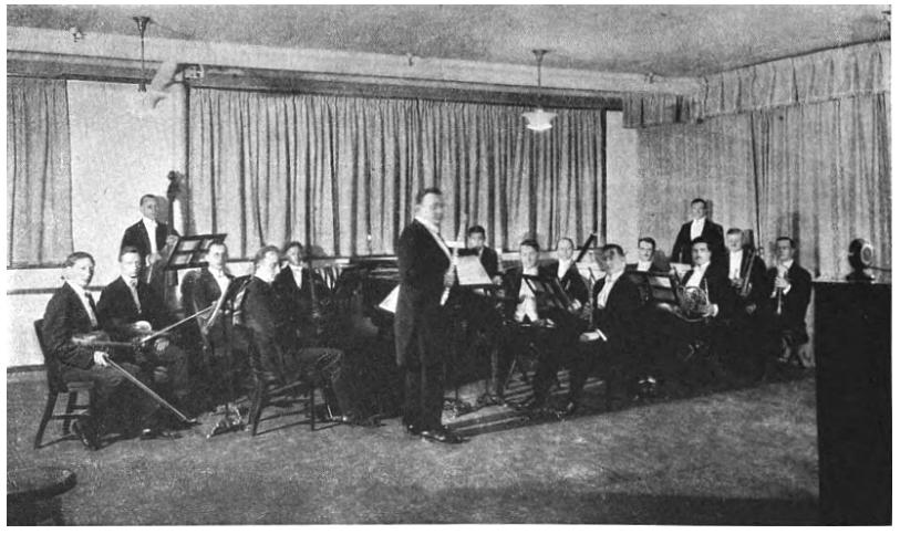 The Detroit News Orchestra broadcasting over WWJ in Detroit, Michigan.